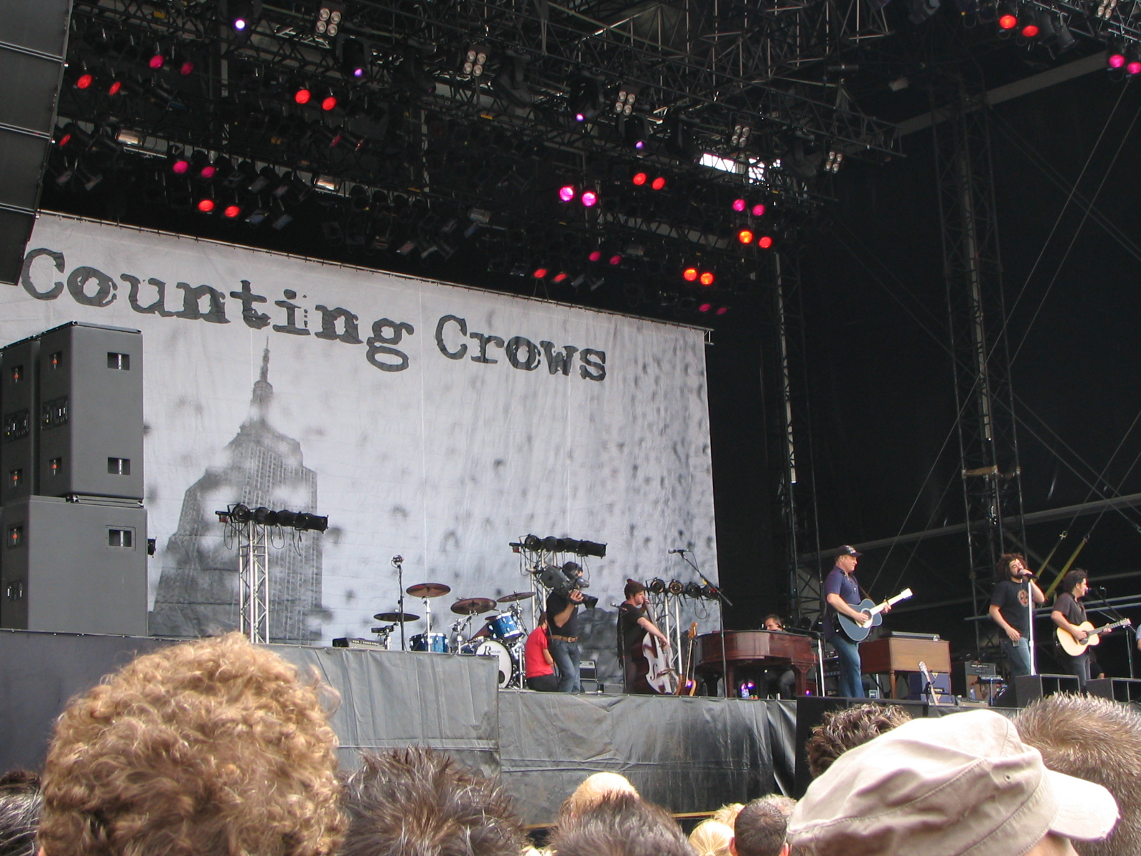 Counting Crows performing live at Rockin Park, Nijmegen, June 28, 2008